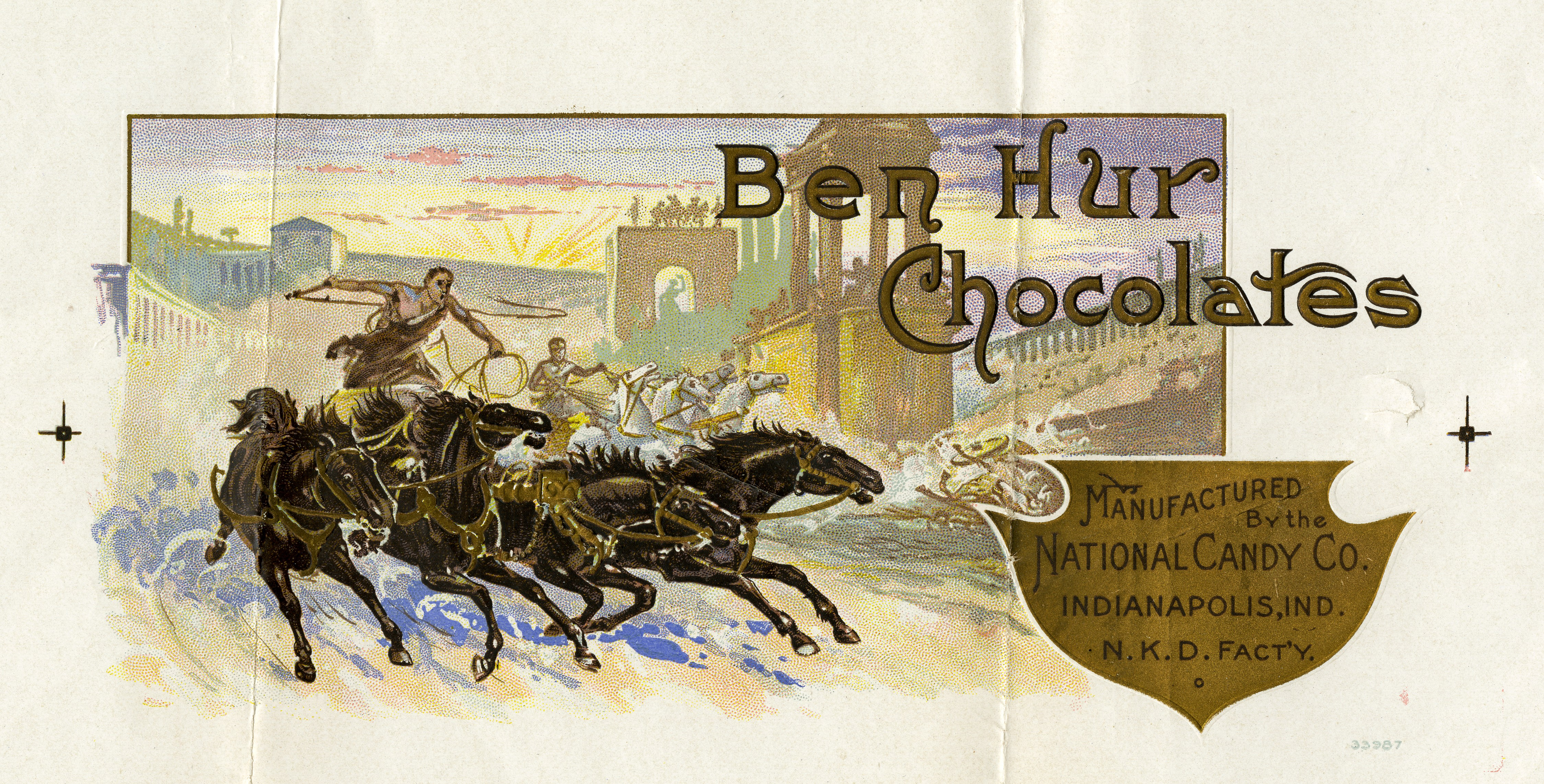 Ben Hur Chocolates label, 1906